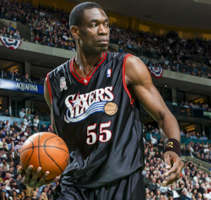 Dikembe Motombo